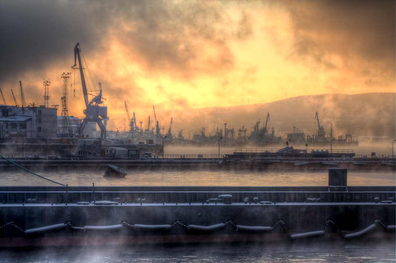 20 degrees at the Atomflot docks in Murmansk harbour. Air is freezing but the sea isn't thank to Gulf stream.